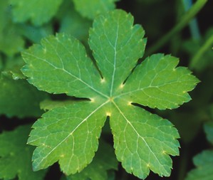 According to IUCN/SSC specialists this is one of the most endangered species of island floras in the Mediterranean area.